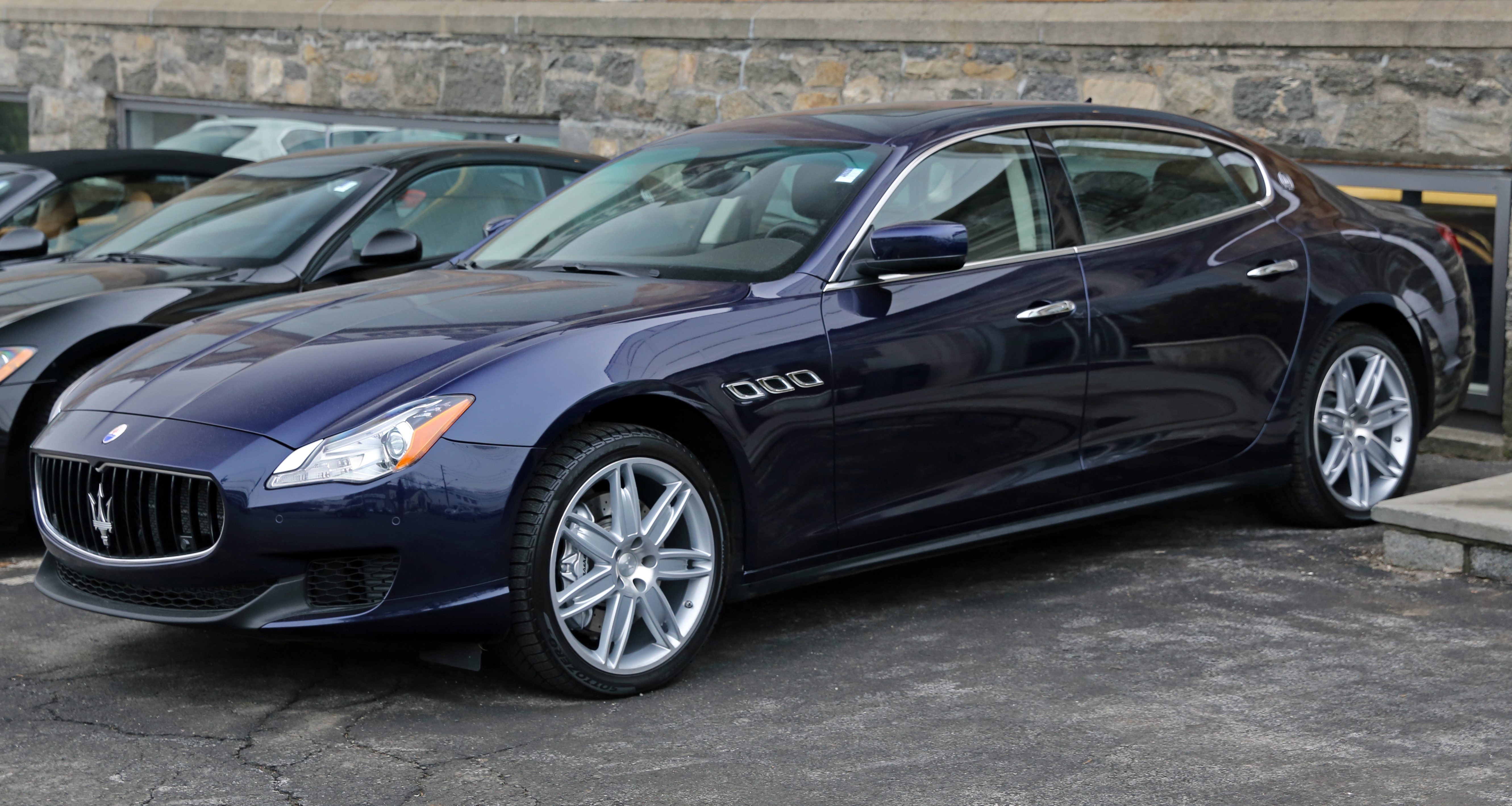 2014 Maserati Quattroporte S Q4, front left view, Blu Passione with Marrone leather interior.